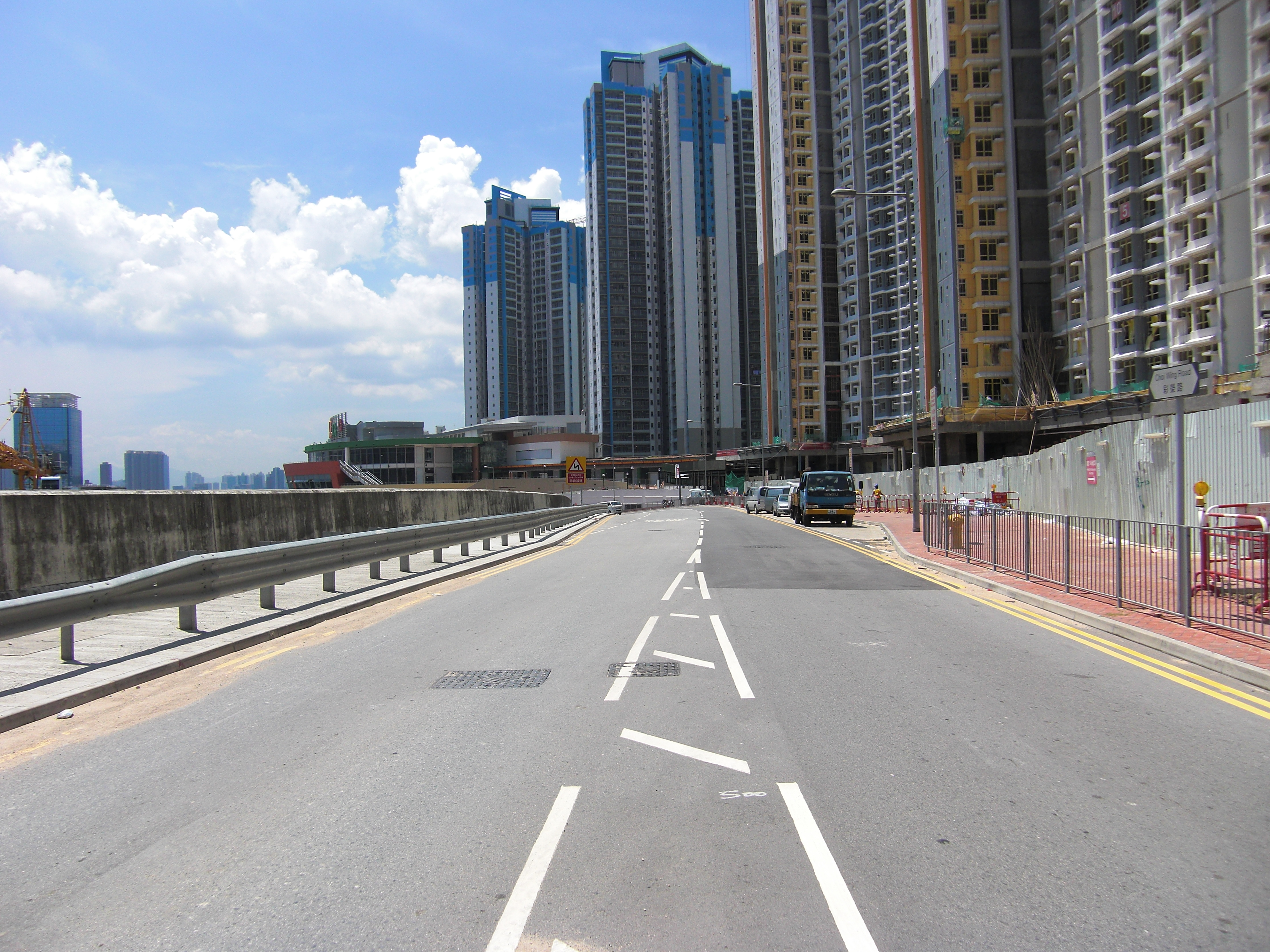 Looking towards the west from Choi Wing Road. A view of Choi Tak Estate is seen.